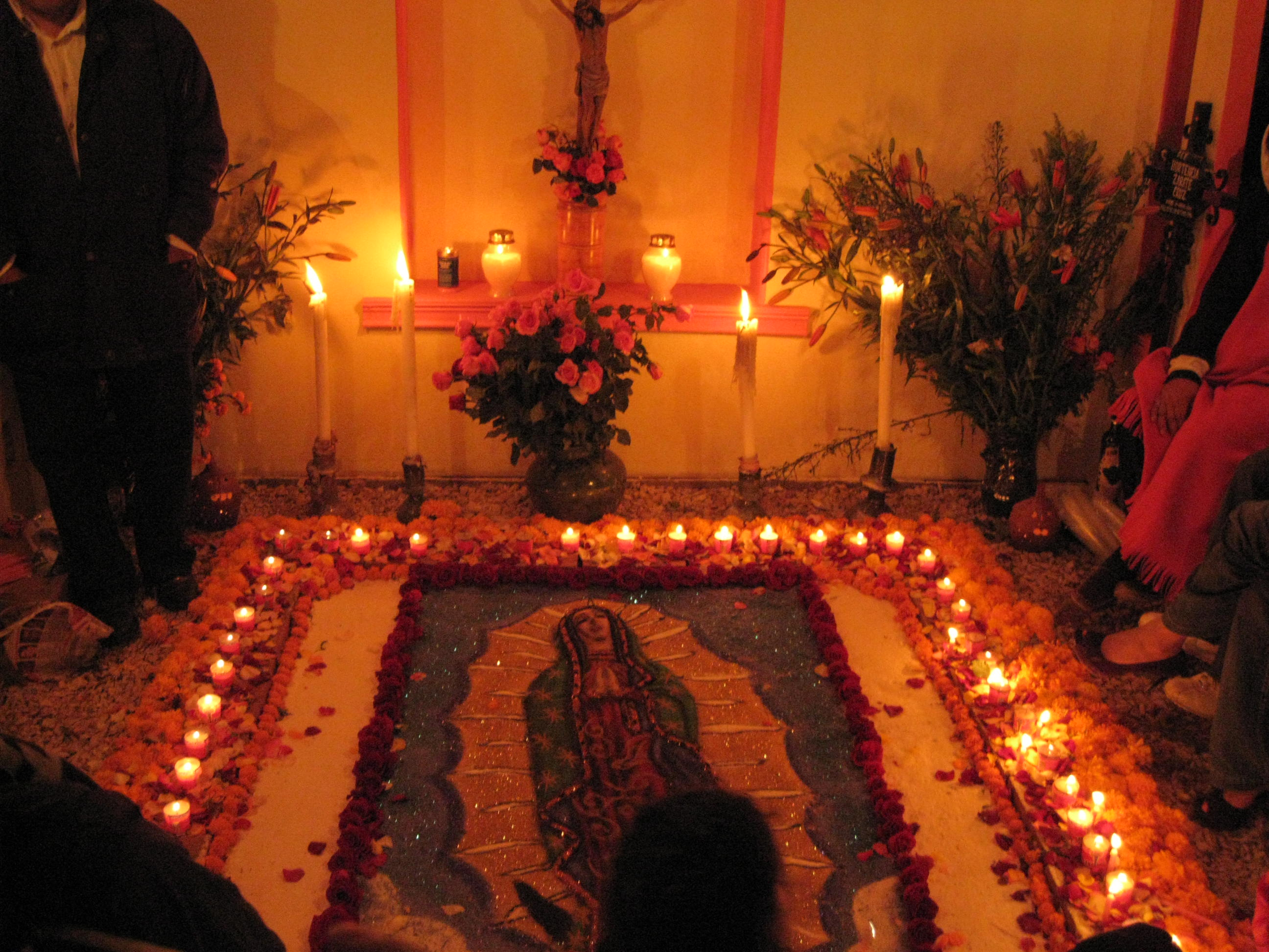 Ofrenda sand art Oaxaca